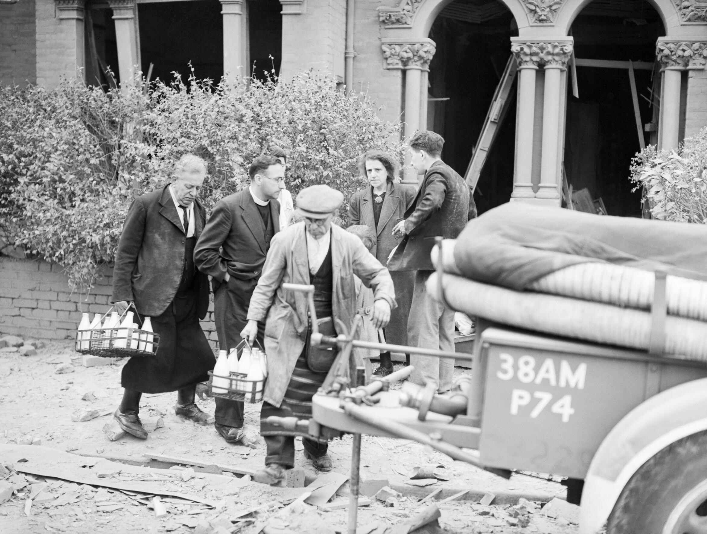 Milkmen deliver the morning round along a rubble strewn street, as householders discuss the damage to their properties following a V1 Flying Bomb attack in Upper Norwood, London, July 1944. Milkmen deliver the morning round along a rubble strewn street, as householders discuss the damage to their properties following a V1 attack in Upper Norwood. A vicar can also be seen walking along the street. The front doors and all windows are missing from these homes, and the interiors appear as shells, with a few timbers or a ladder all that is visible inside.